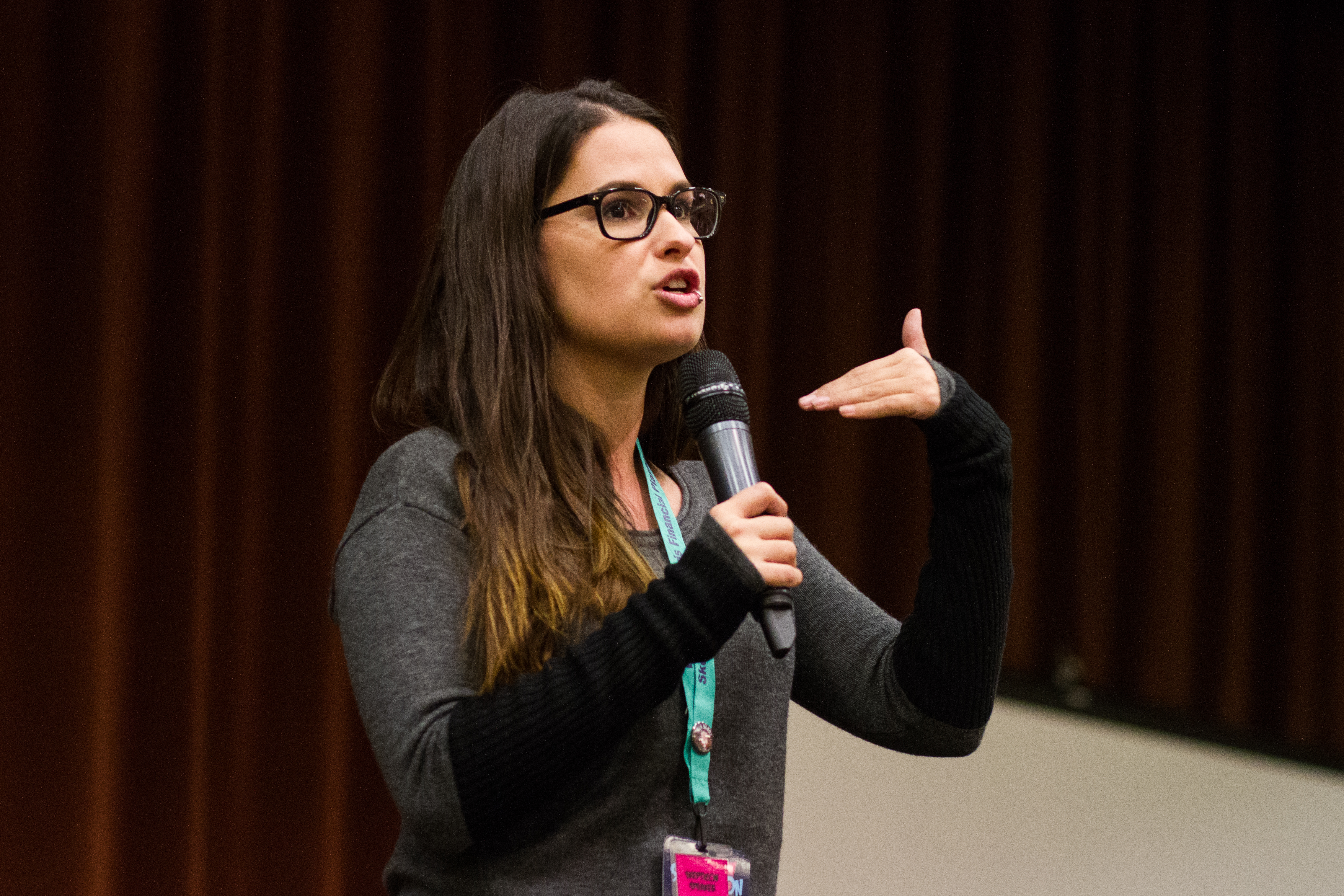 Cara Santa Maria presents her talk, An Atheist on TV at Skepticon 7.